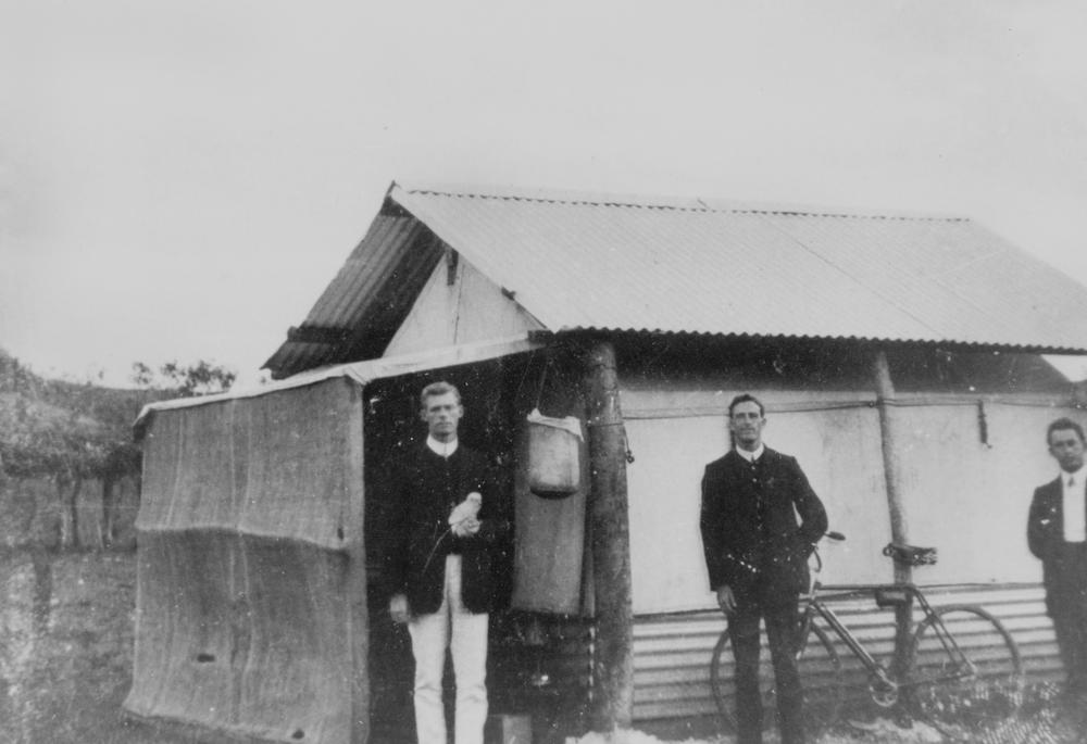 Teacher and friends standing near a dwelling in the mining town, Mount Elliott, Queensland. Left to right: Alan Glew; Eddie Stinson (teacher); Claude Stewart. (Description supplied with photograph.).